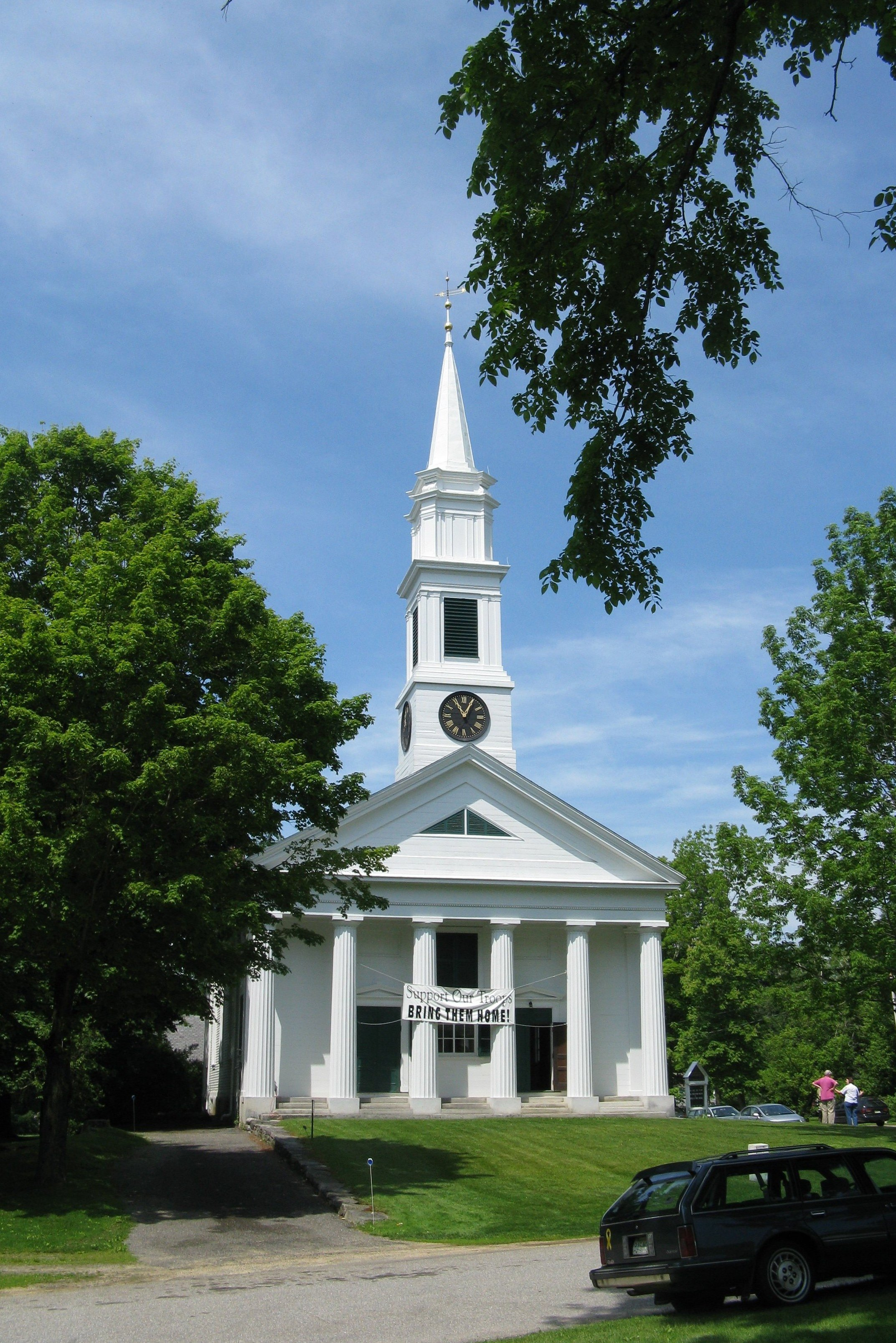 First Congregational Parish, Unitarian, Petersham Massachusetts, June 2008